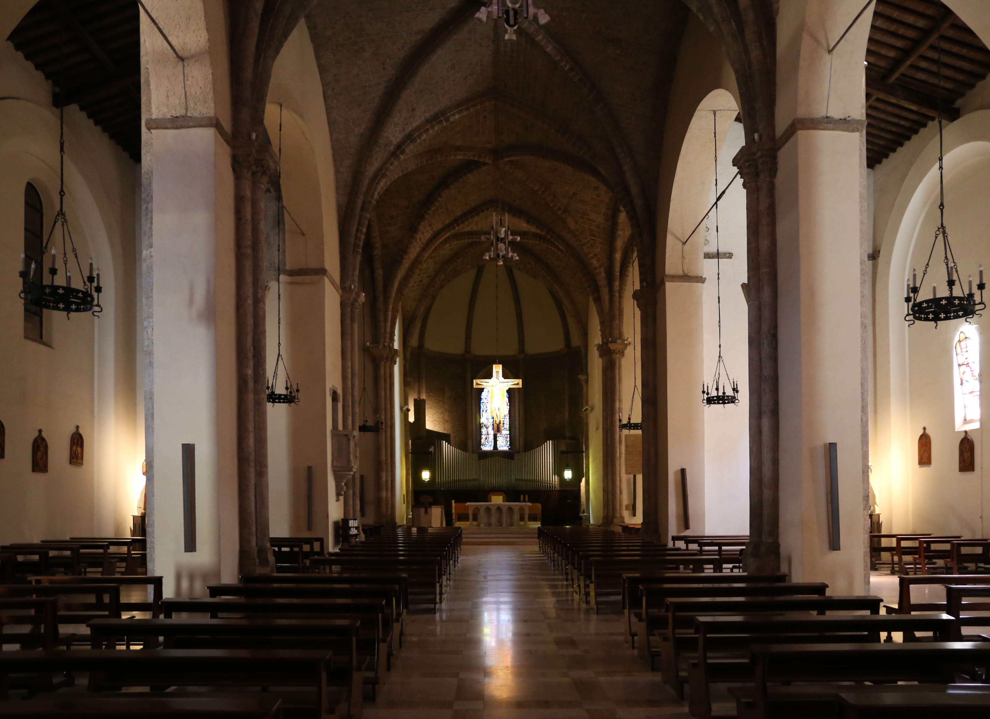 San Francesco (Terni)